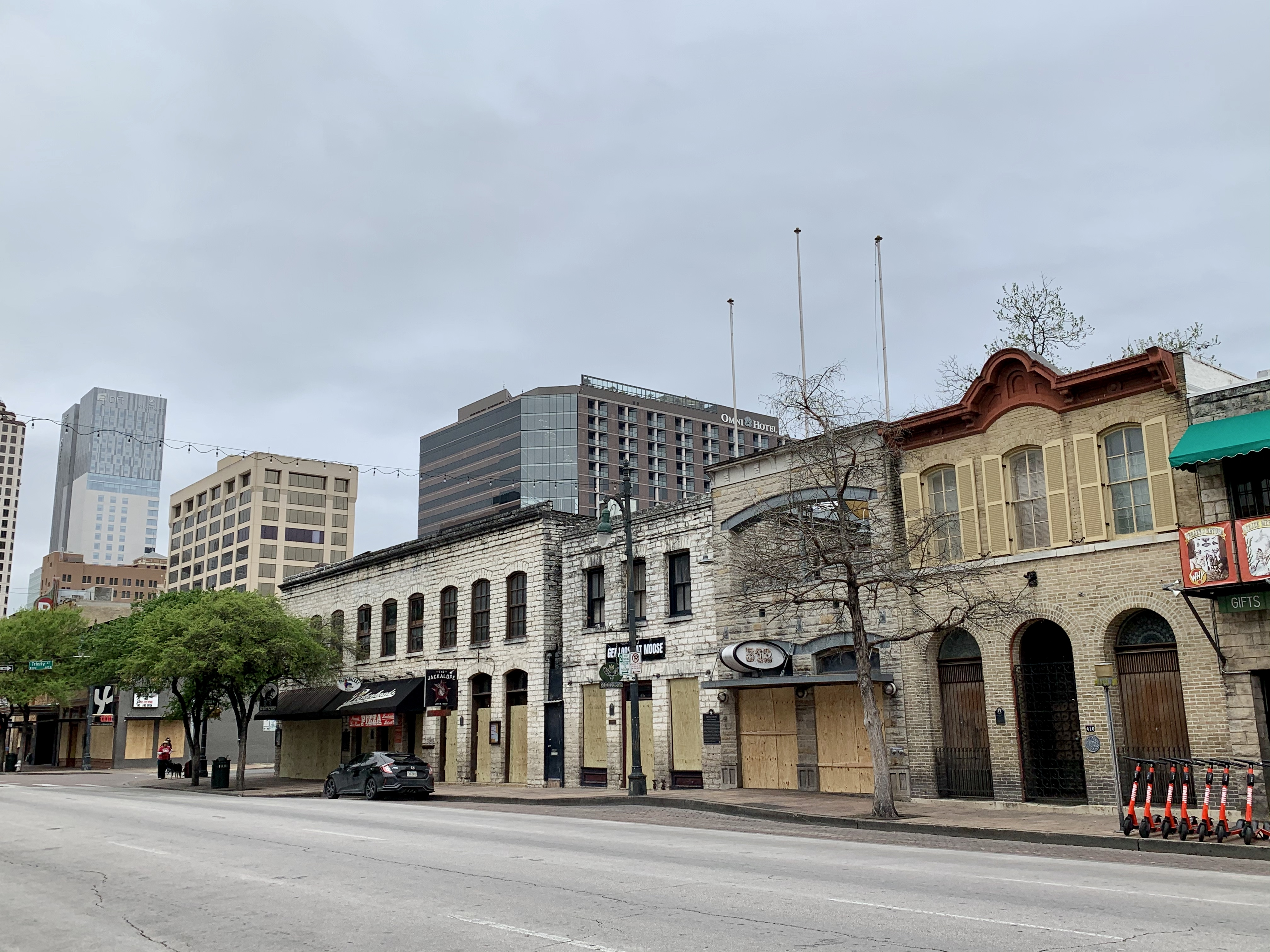 Windows on 6th Street in Austin, Texas are boarded up after bars were ordered closed during the 2020 Coronavirus pandemic.